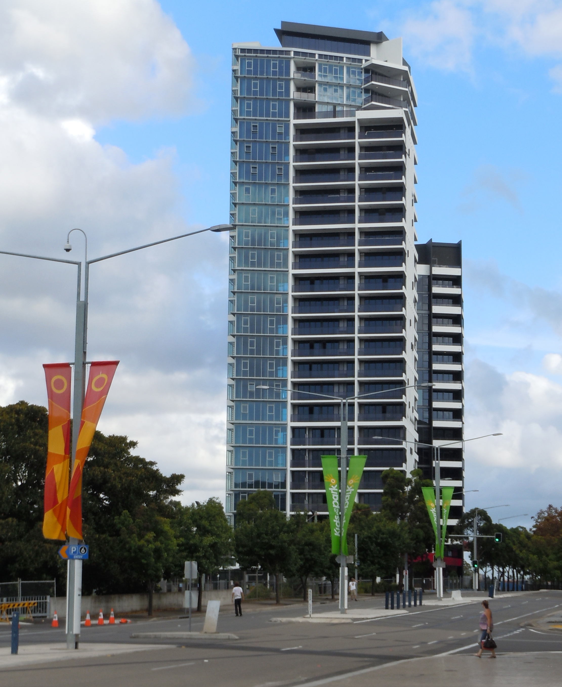 The first stage of the Australia Towers residential development.